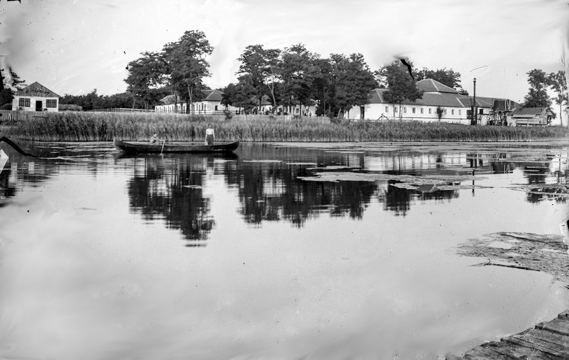 Repaired major damage to the negative, cropped, and using the blend tool in GIMP. I claim no copyright over the repairs to the photo.